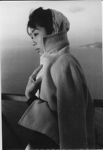 Tsugako Hayashi (wife of Gian Pietro Calasso) in Capri